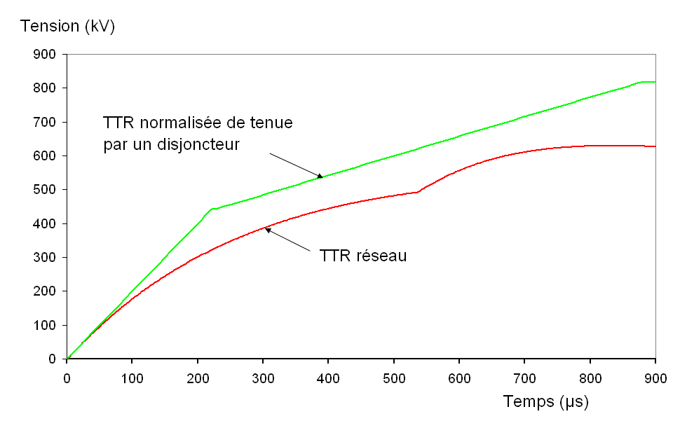 Comparison TRV standardized and actual